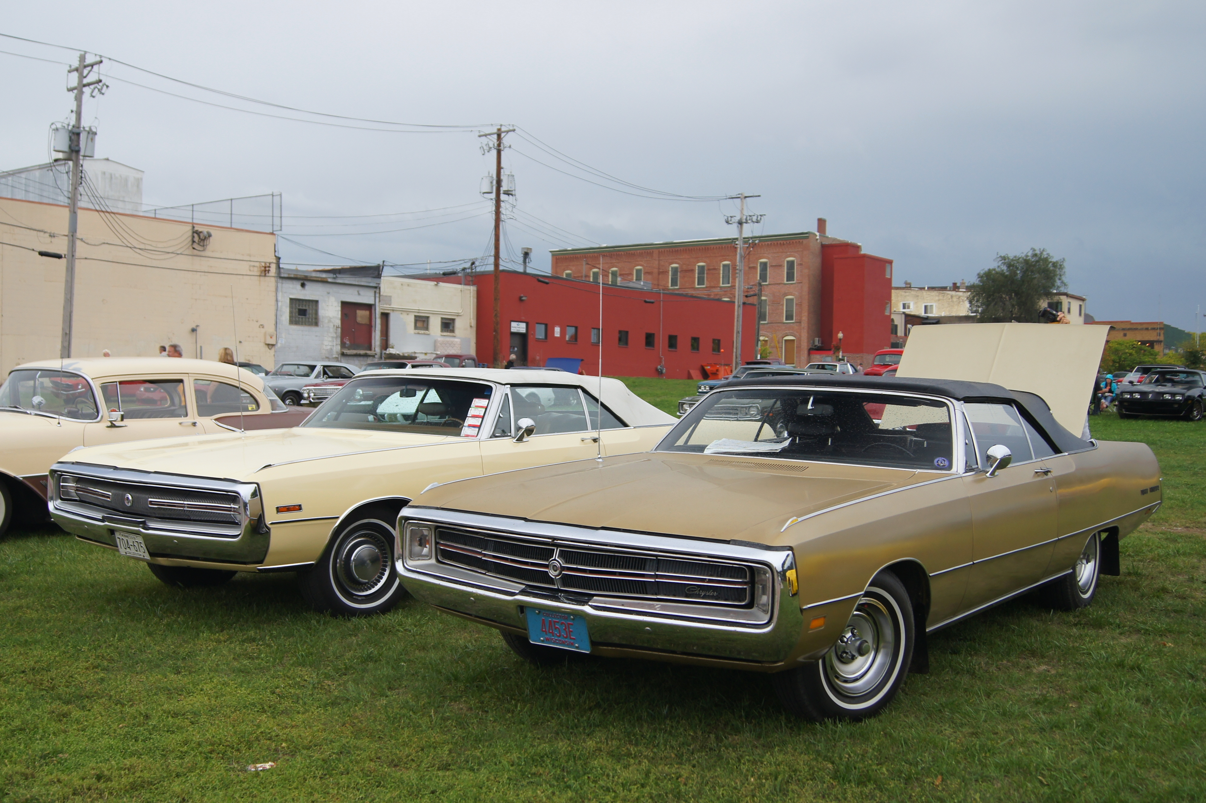 9th Annual Saturday Night Cruise-In September 20,2014 Hastings, Minnesota My second time to this event and the second time I got rained on. It was nice before and after the rain though. I did miss quite a few great cars that left before I could capture them, including a white 1962 Imperial that I caught a glimpse of at "Back to the 50's" More of my car pictures at my Flickr site